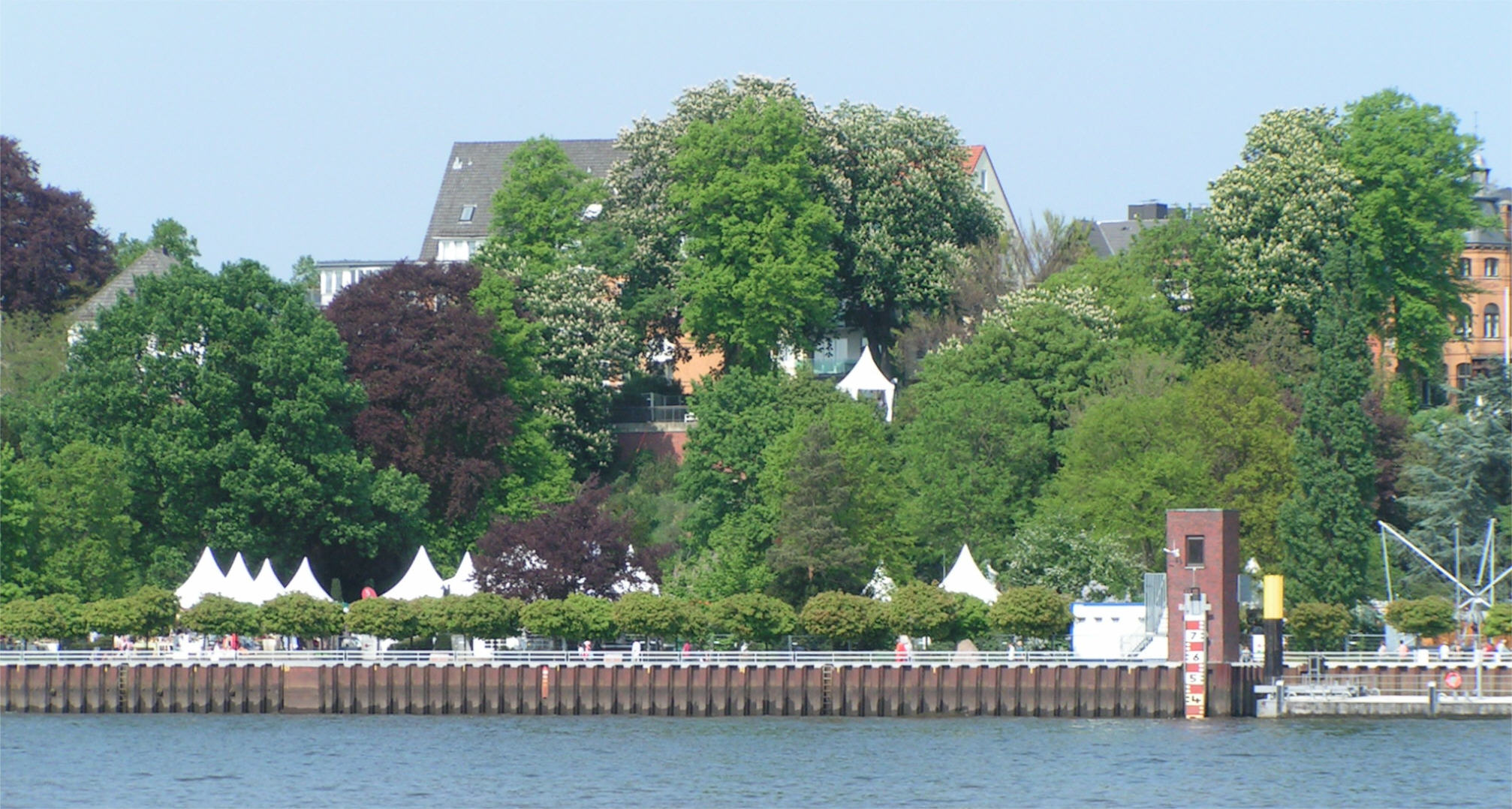 Bremen-Vegesack: Weser shore and city park during the exhibiton "Maison et jardin"